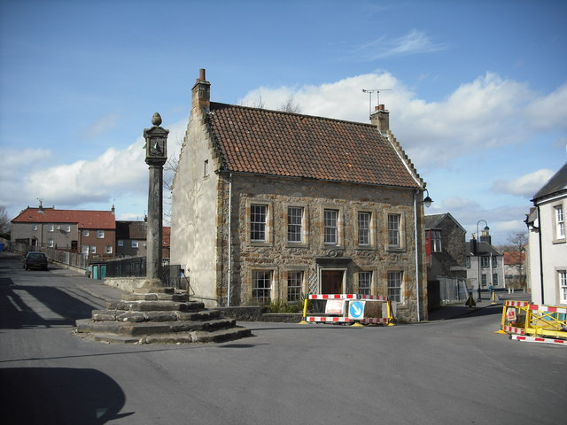 Airth High Street An old building in the High Street beside the mercat cross.